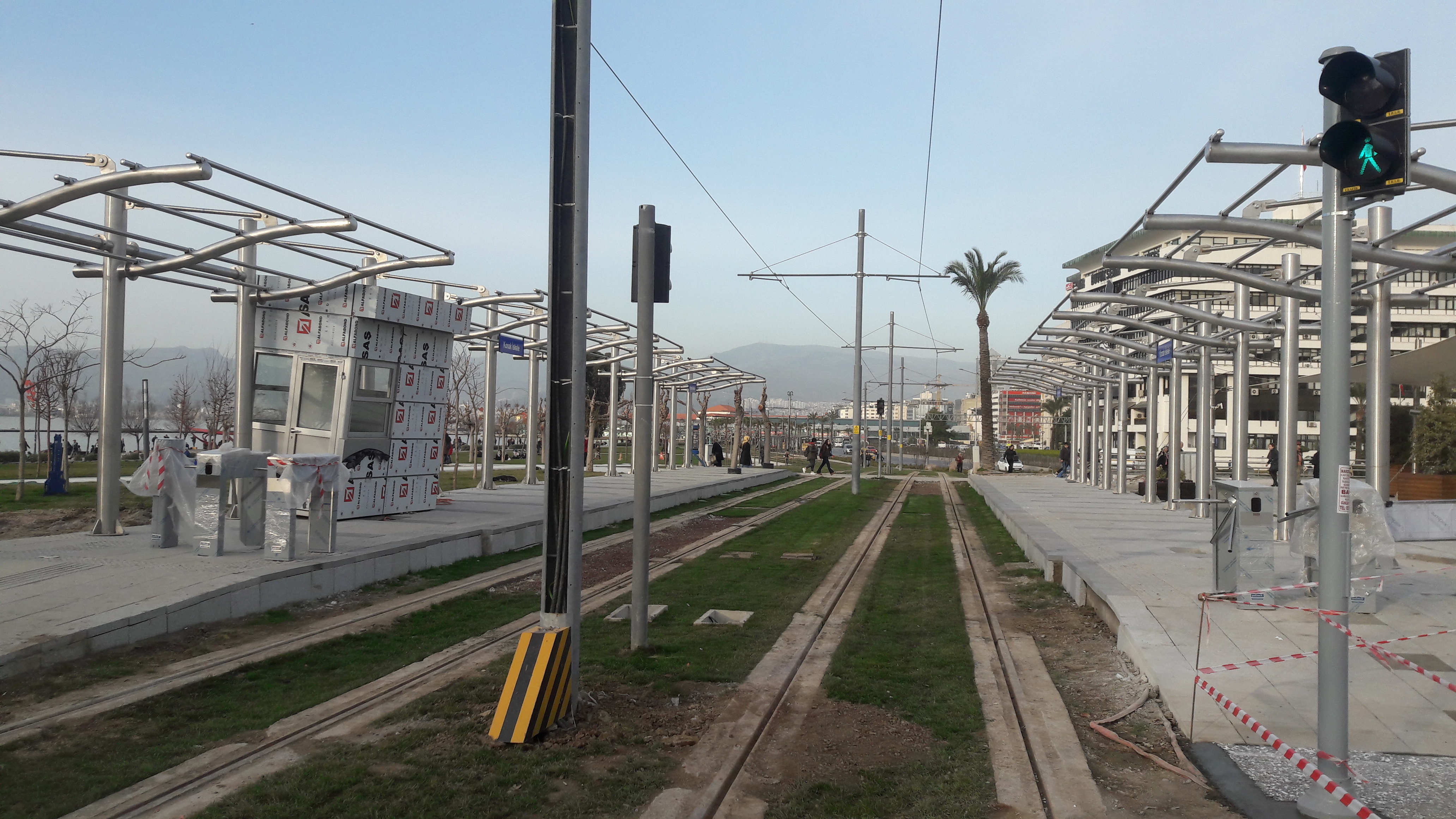 Konak iskele tram station.